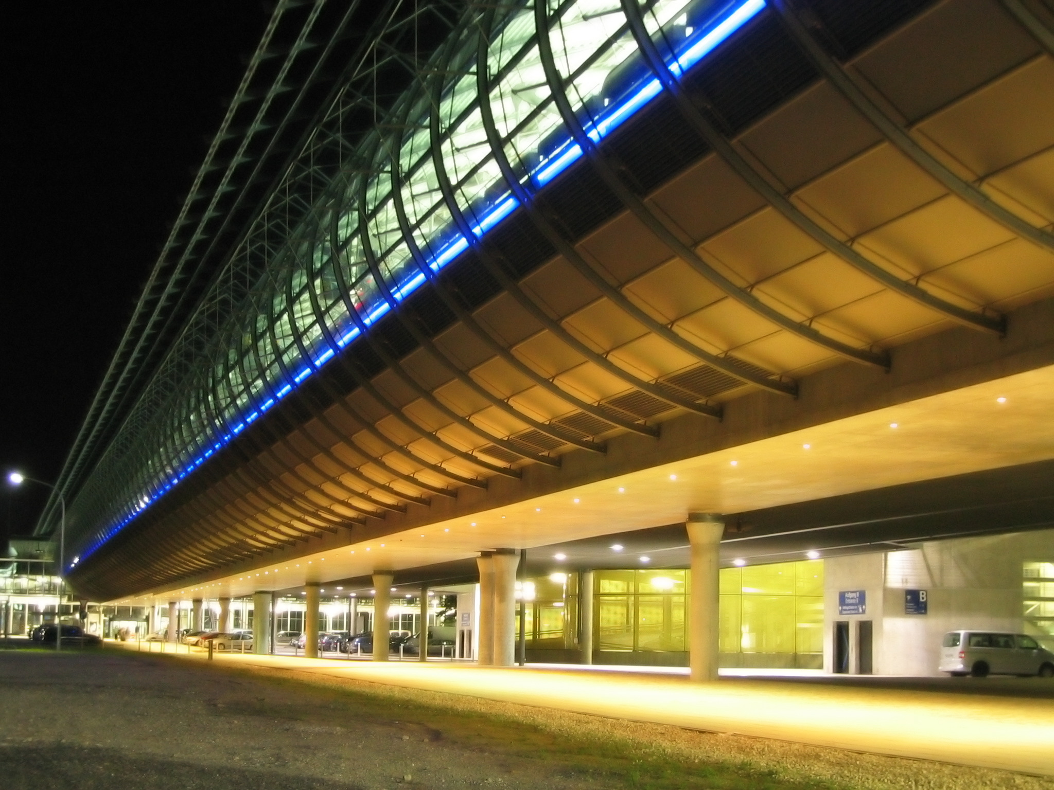 Terminal of the Leipzig/Halle Airport from the outside at night